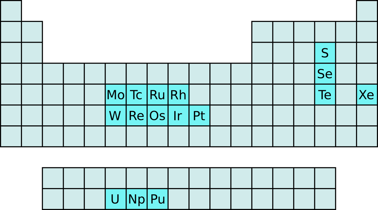 Periodic table highlighting the elements that form stable hexafluorides.